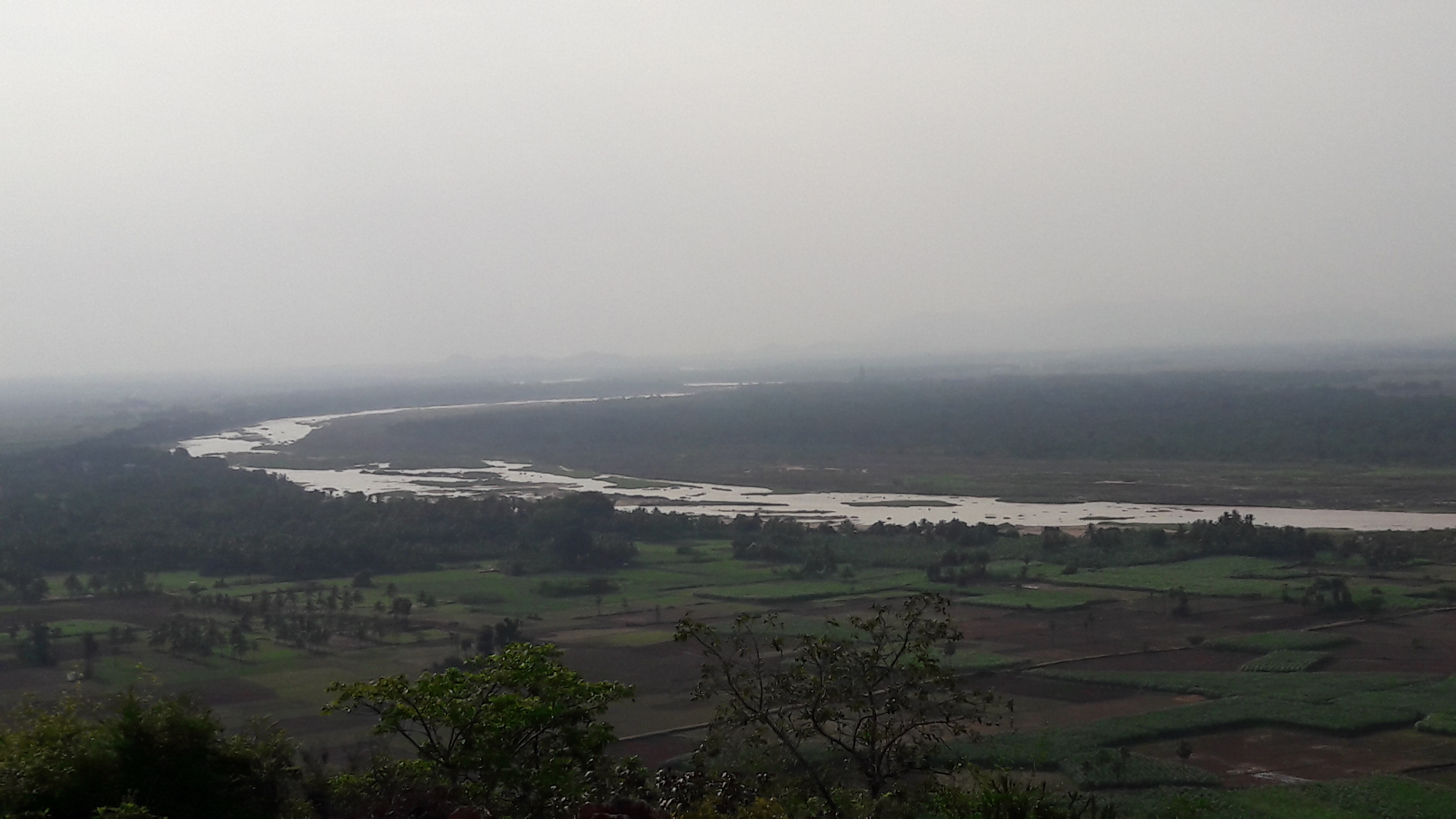 The photos were shot from monumental place best know for buddhist monastery dated back to the First Century B.C. The location is find in Salihundam village of Srikakulam in Andra Pradesh State of India.